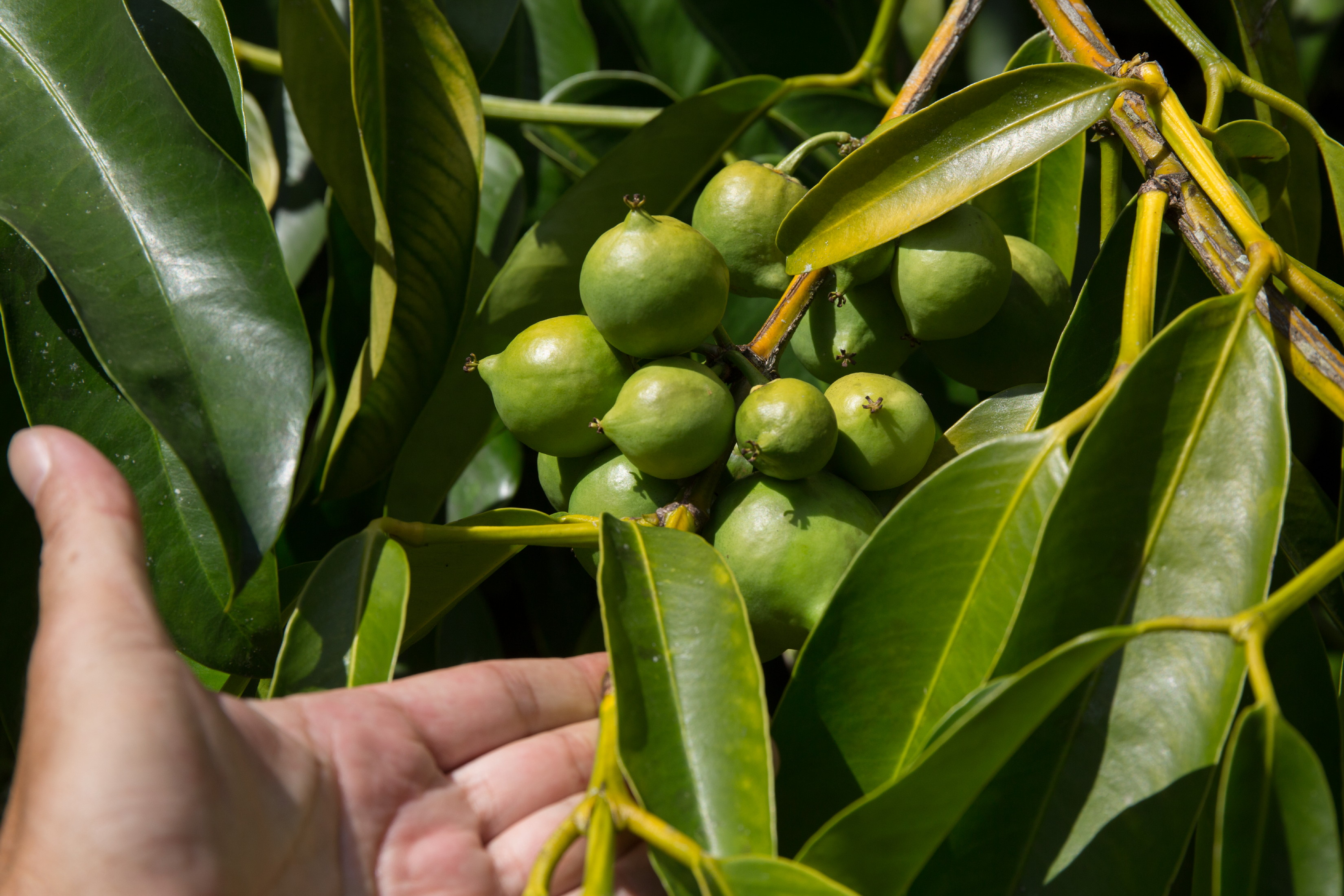 Garcinia dulcis in the botanical garden Cupaynicú in Guisa, Granma, Cuba